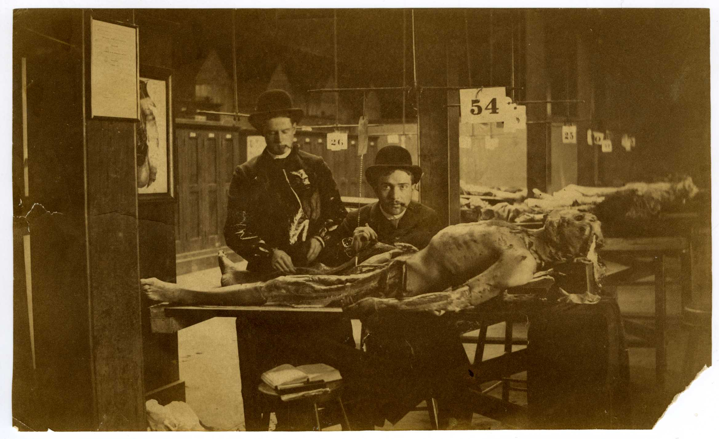 19th C Human dissection